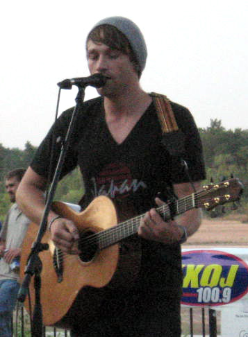 Shawn McDonald @ Riverwalk Crossing in Jenks, OK 6/27/11 cropped.